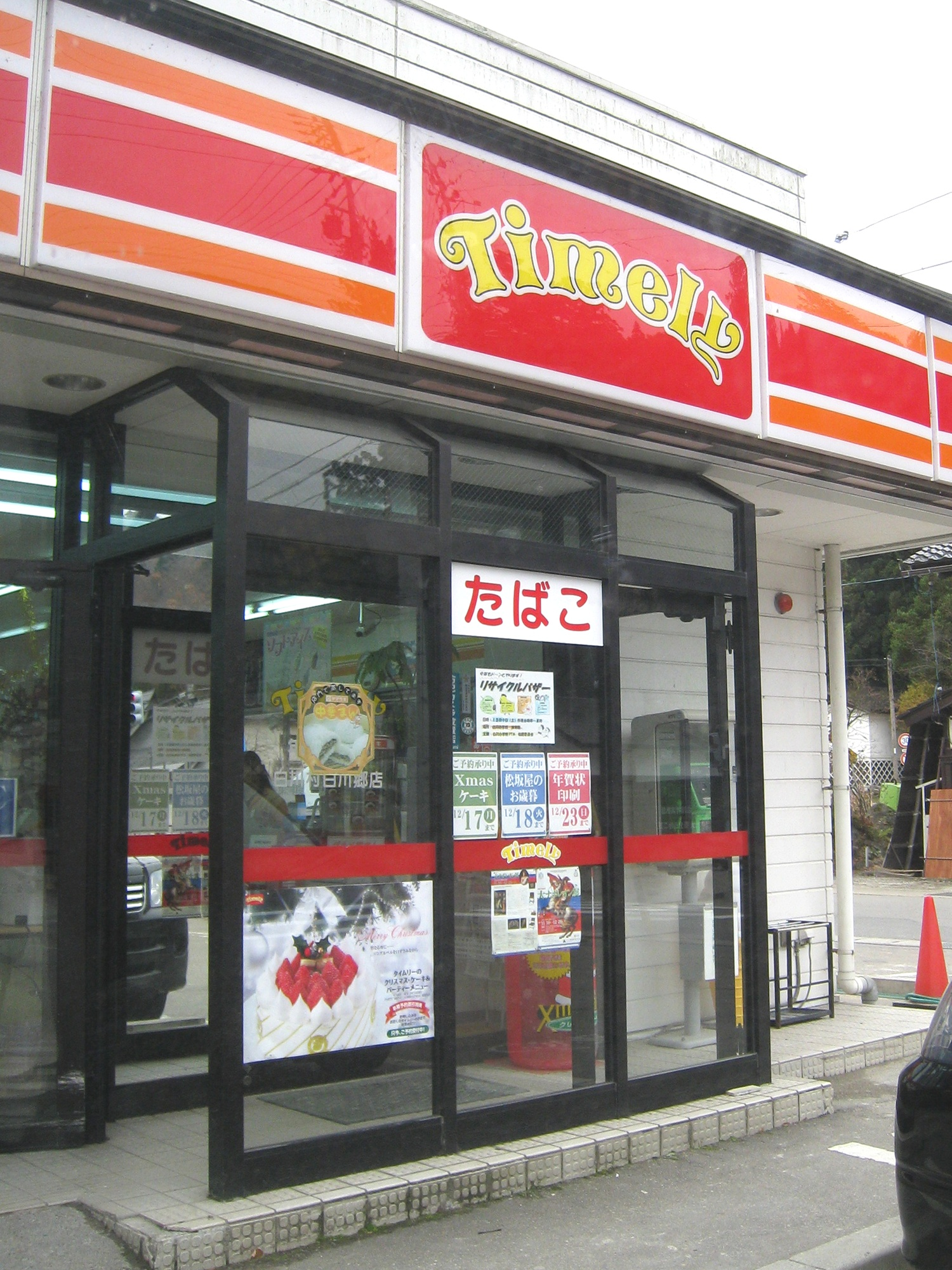 Photograph of Shirakawamura Shirakawago Timely entrance exterior, it is convenience store in Shirakawa Village, Gifu Prefecture, this photo date is November 29, 2007.